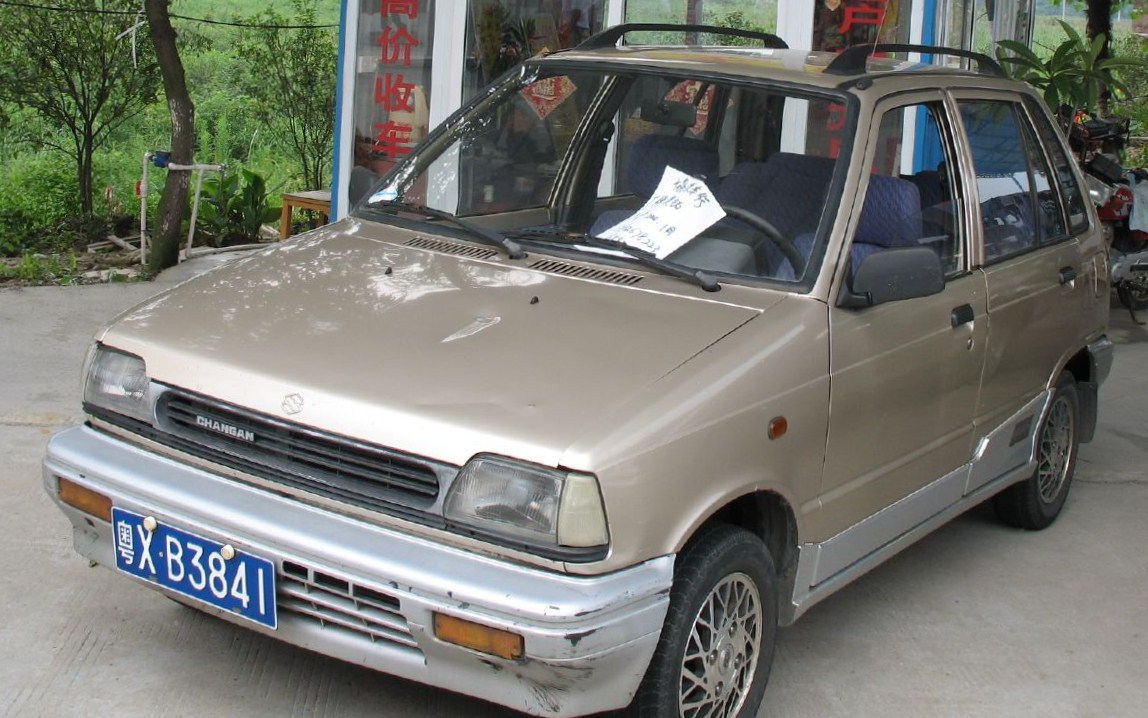 Chang'an Suzuki SC7081A City Baby, license built Suzuki Alto of the 2nd generation